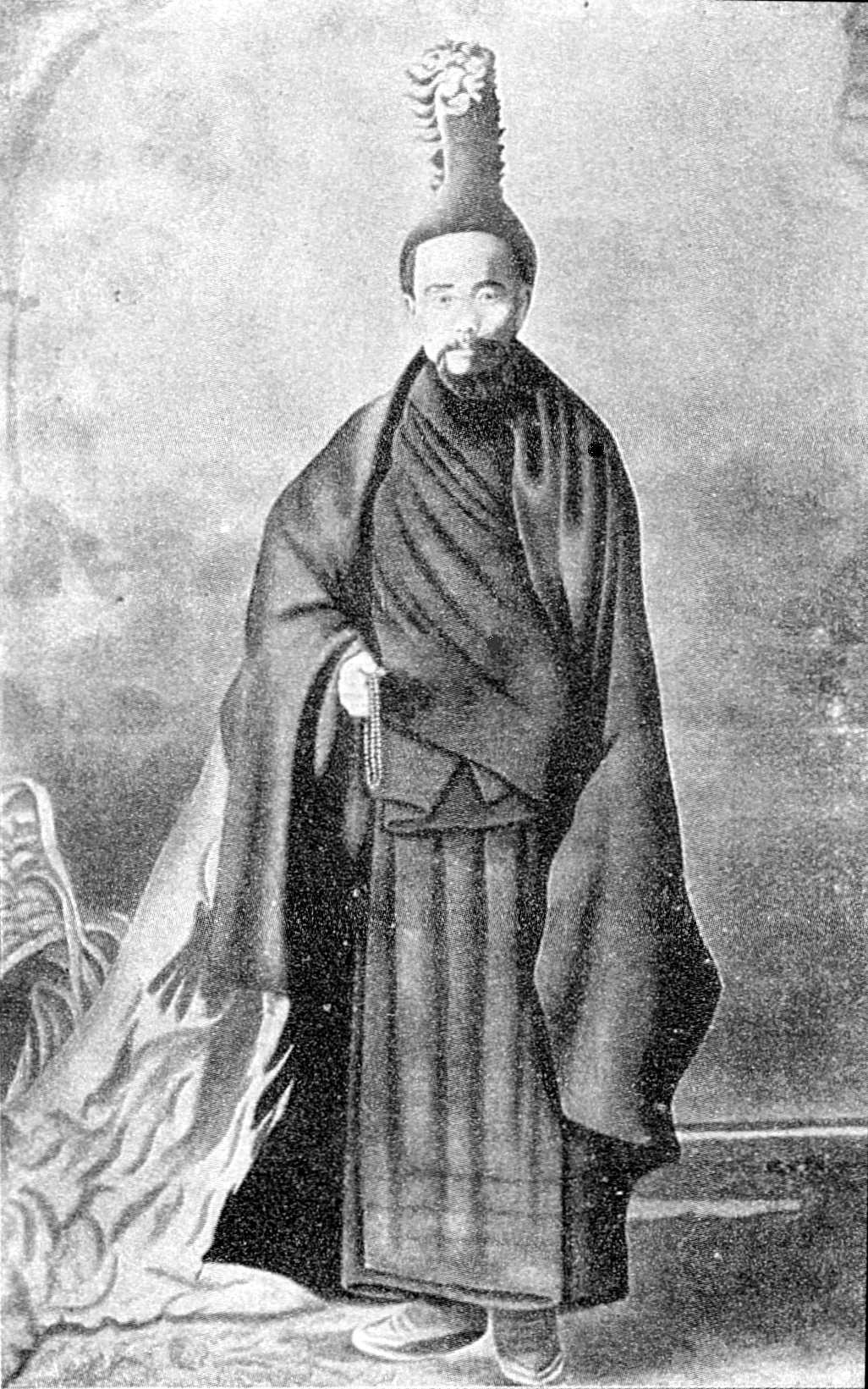 This image is taken from Ekai Kawaguchi's book, Three Years in Tibet, which was published in London and Benares in 1909